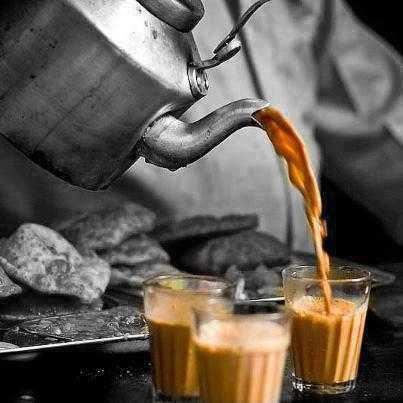 My photography :)